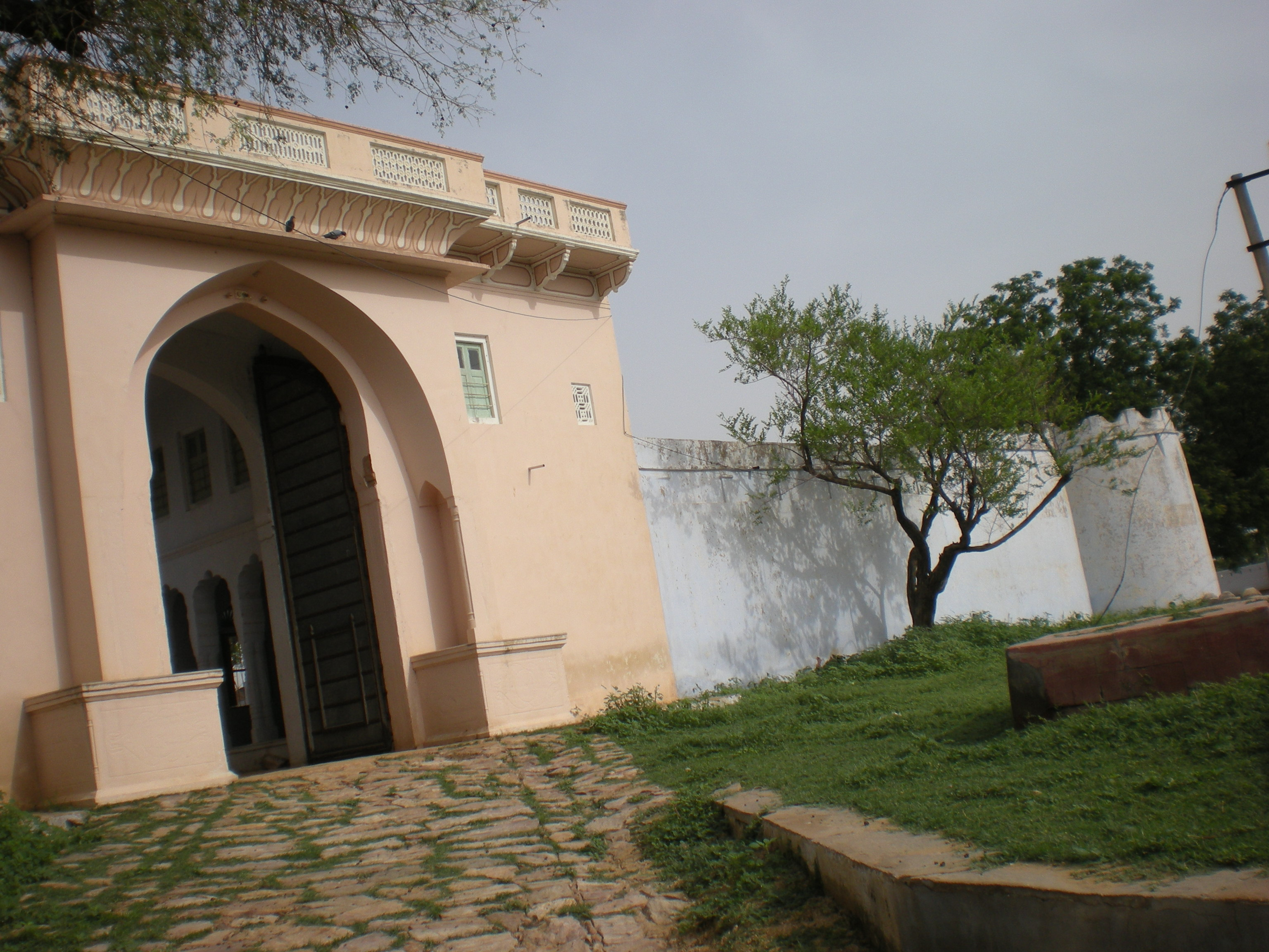 Gateway to the Fort Palace of Jiliya, Rajasthan, India.